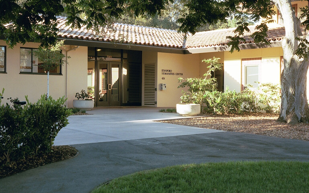 Photo of Bowman House, current home of the Stanford Humanities Center. Taken by SHC staff; released under Creative Commons License.